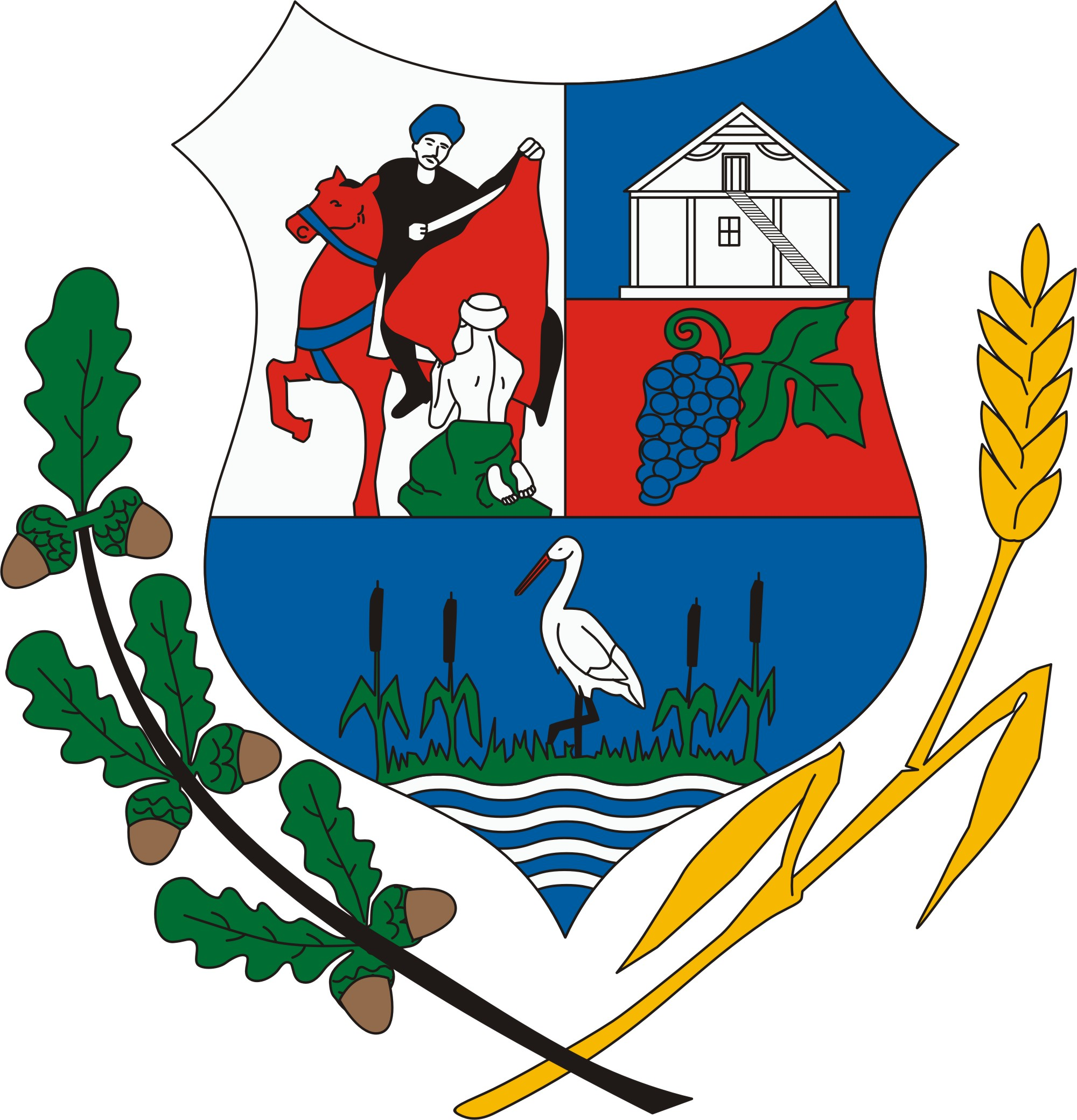 Coat of arms of Kisszentmárton, Hungary